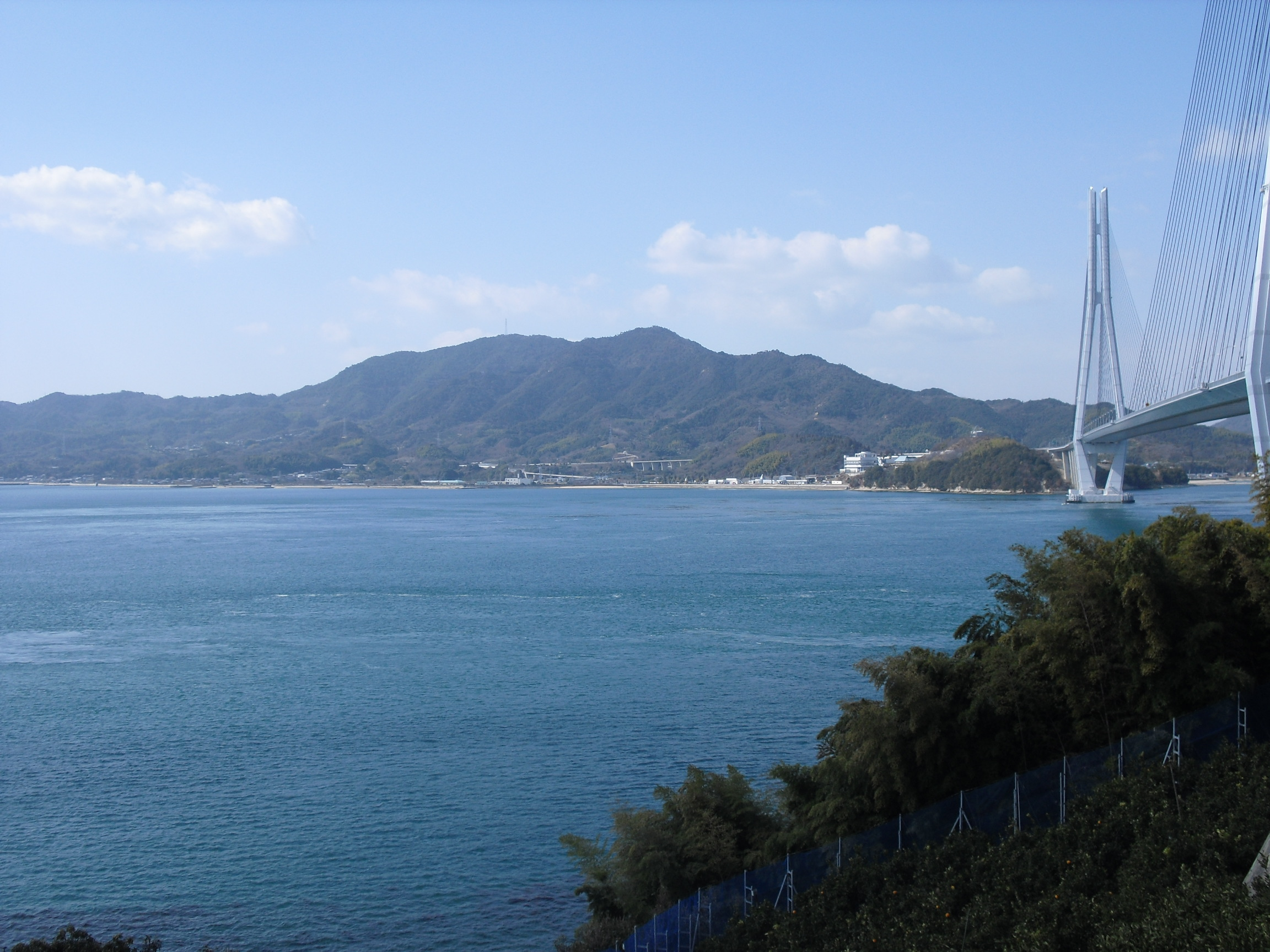 Mt.Washigatosan